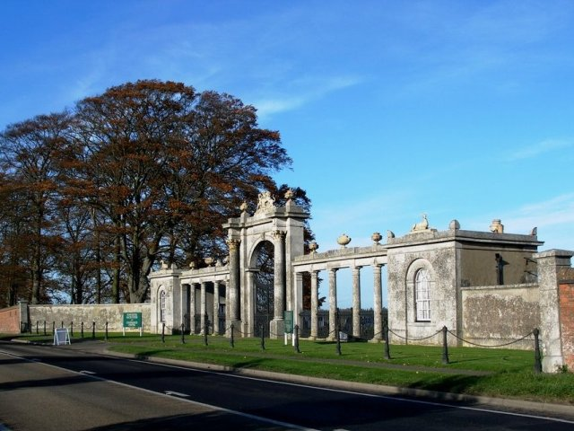 Easton Neston Gate at Towcester Race Course Topped with ornaments in Coade stone by Croggan